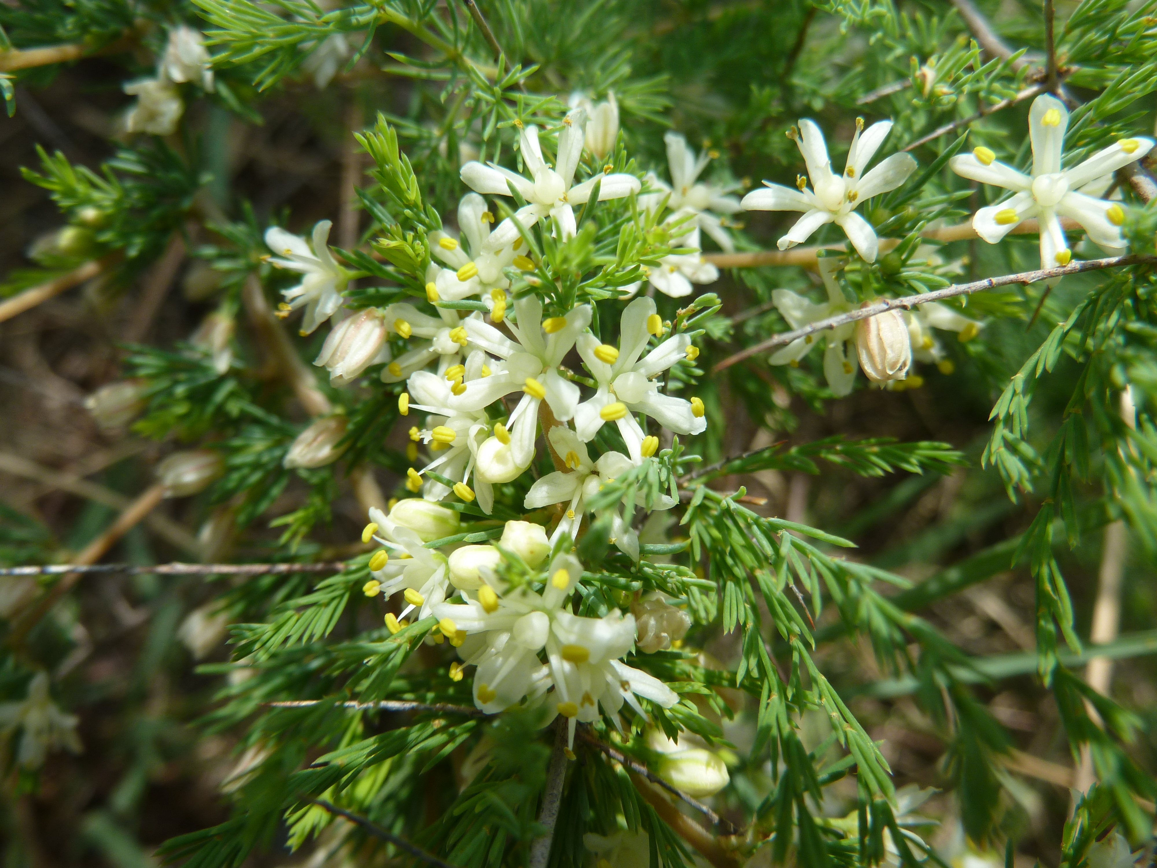 Wild asparagus at Schanskop, Pretoria